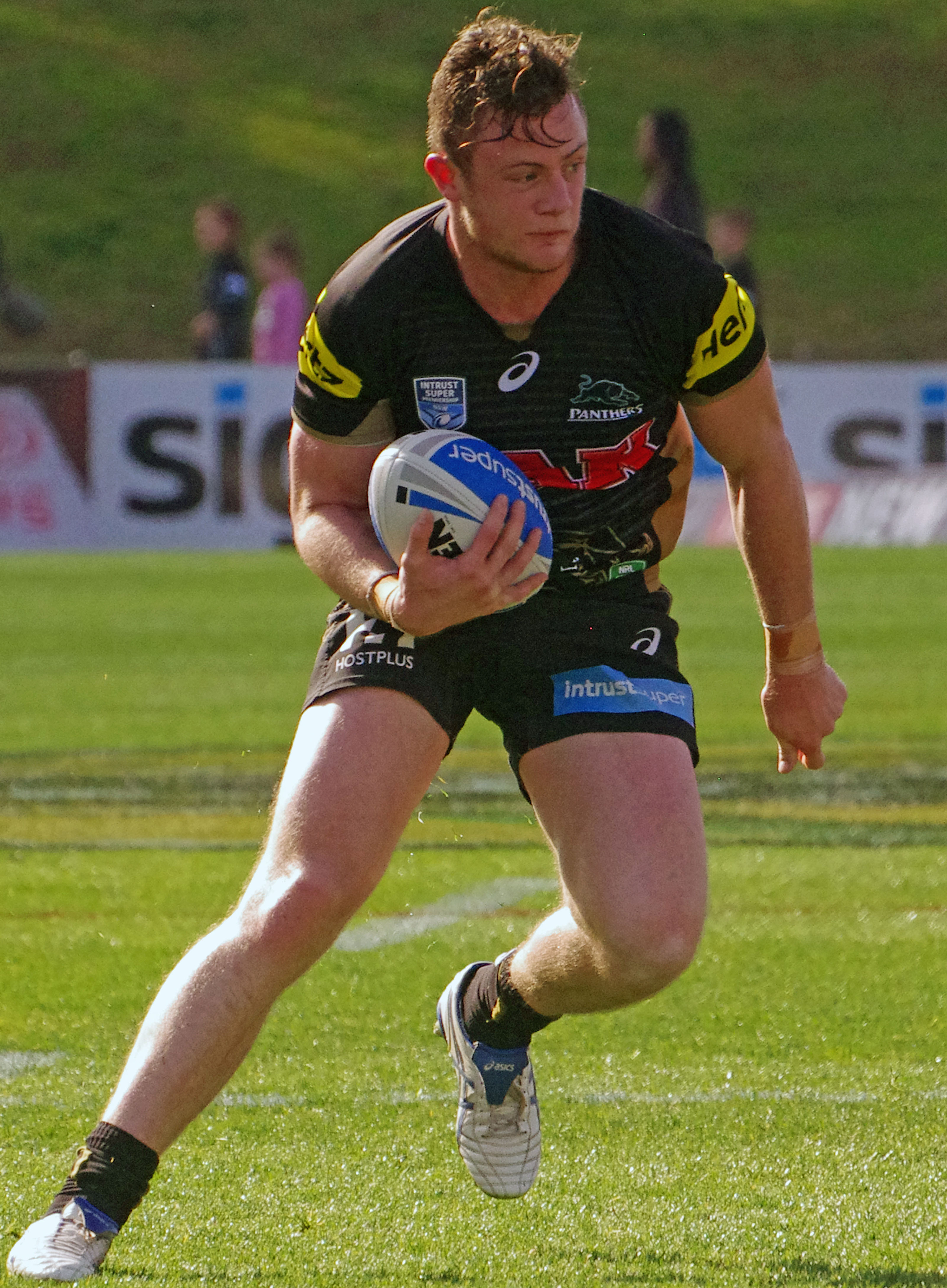 Andrew Heffernan